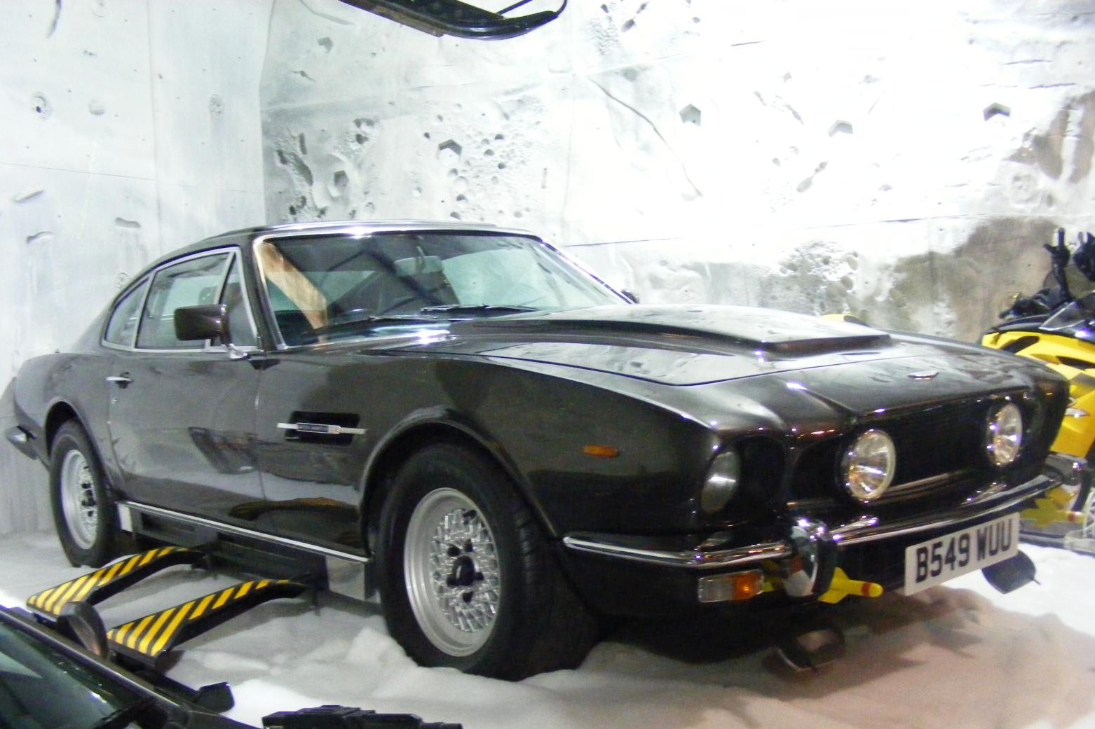 Aston Martin V8 Vantage, James Bond 007 Museum.